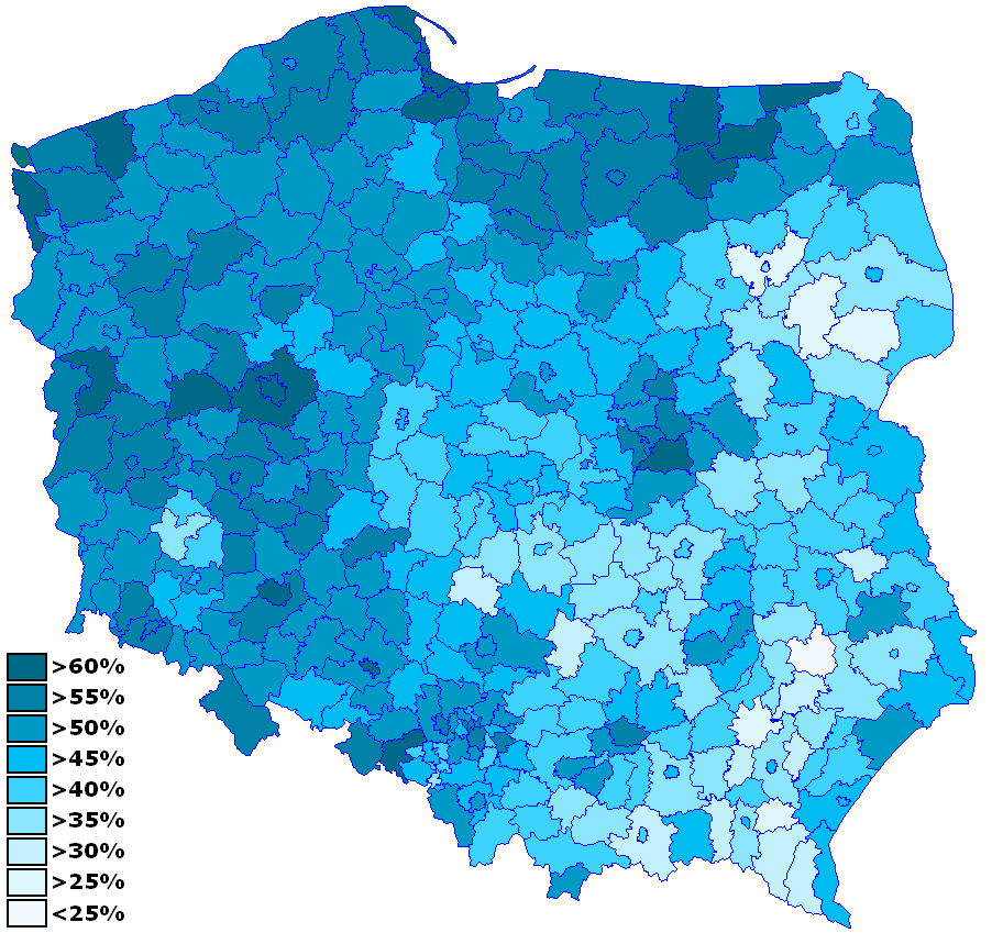 Polish parliamentary election, 2007 - number of votes cast for Civic Platform and Polish People's Party combined